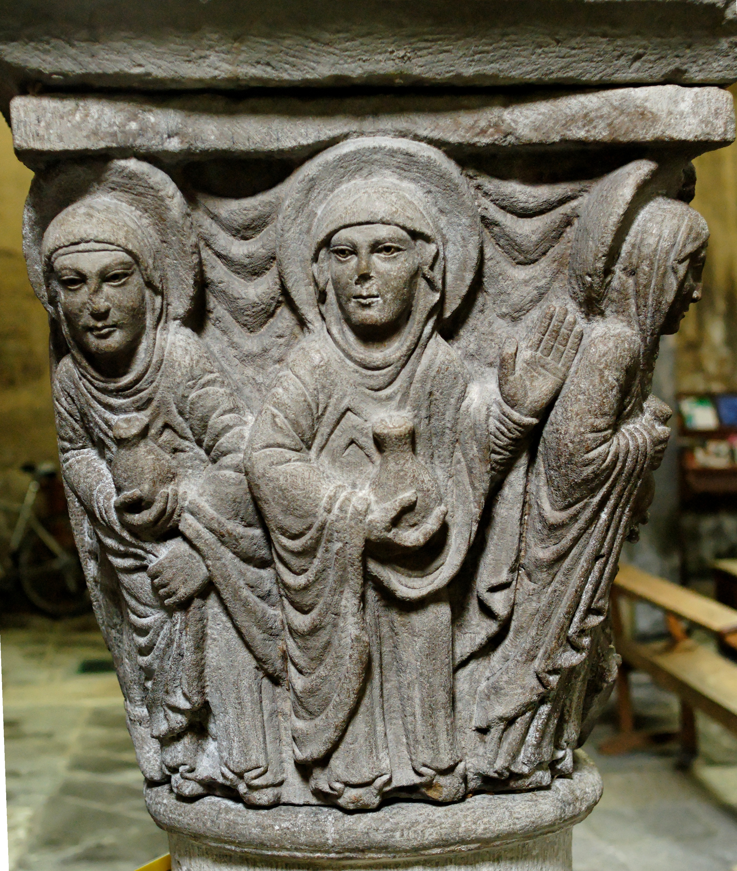 The Holy Women at the grave. Sculpted capital from the former choir of the abbey-church in Mozac, 12th century. H. 80 cm (31 ¼ in.), W. 70 cm (27 ½ in.).